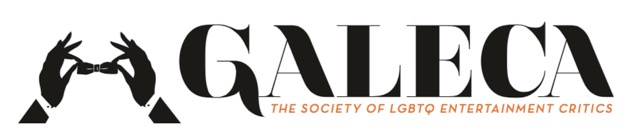 This is the new, revised logo for the group GALECA: The Society of LGBTQ Entertainment Critics (previously the Gay and Lesbian Entertainment Critics Association).